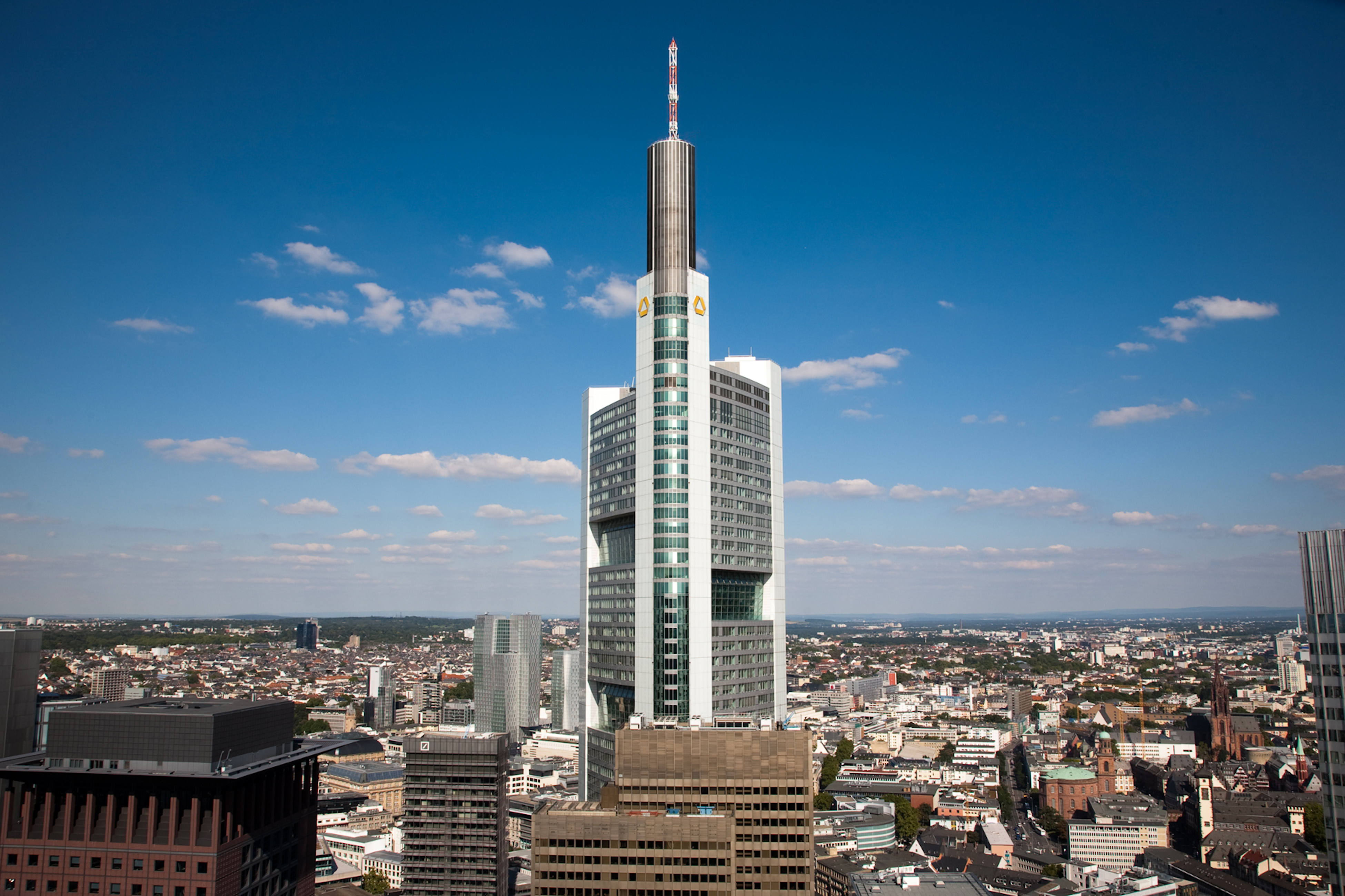 Commerzbank Tower, Kaiserplatz, City of Frankfurt, Germany